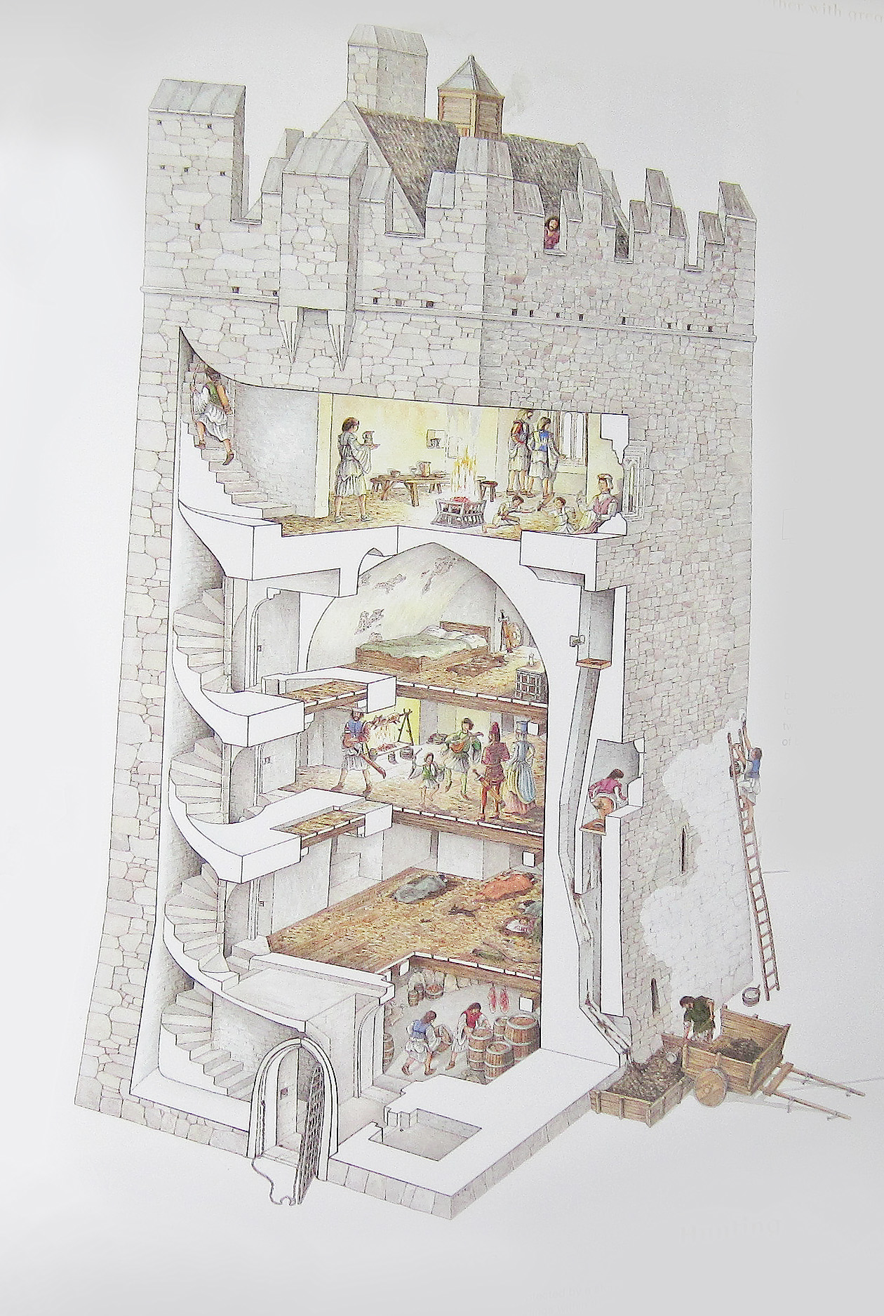 Ross Castle Interior Structure author: unknown; commissioned by Irish government and donated to museum. Museum has subsequently released the right under the belowZ license. URL